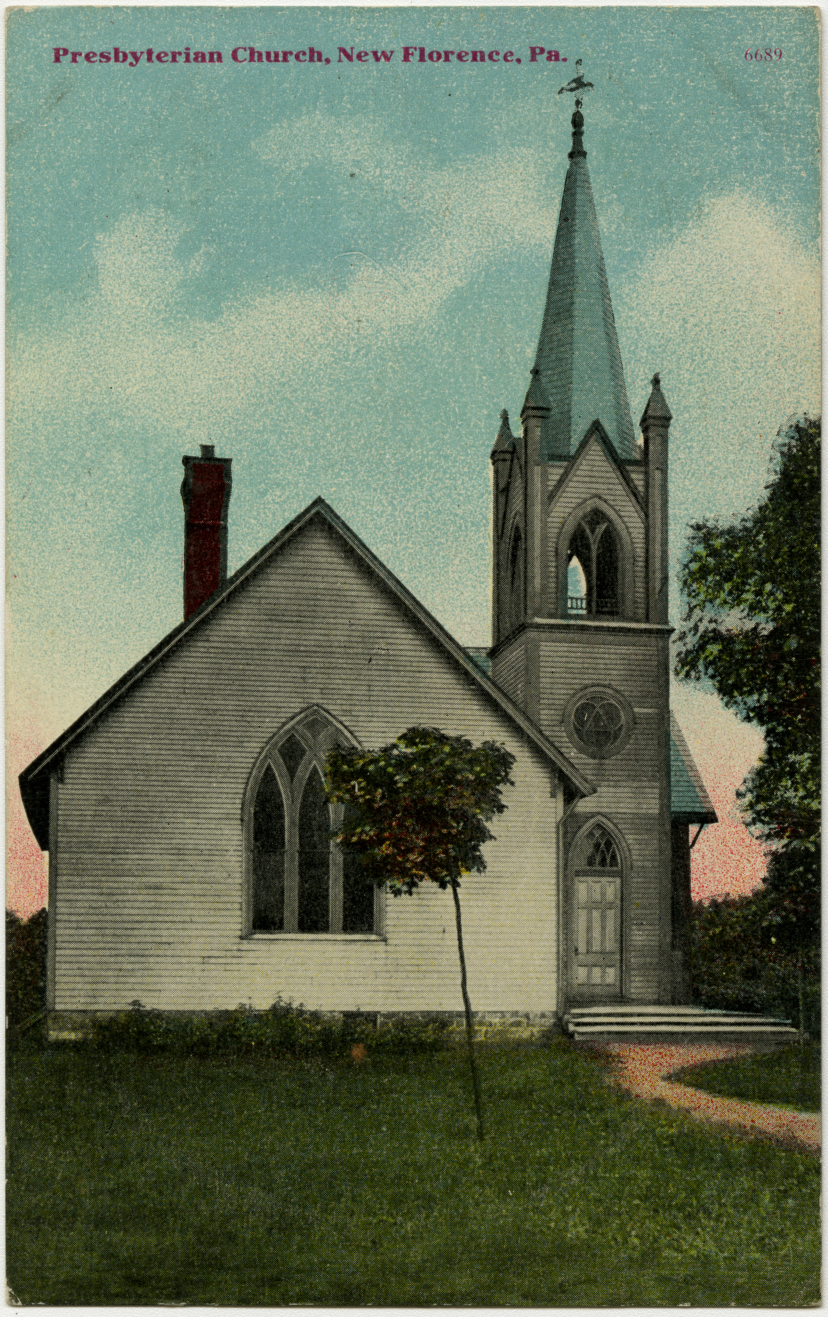 Presbyterian church in New Florence, Pennsylvania from a pre-1923 postcard. From RG 428, Postcard Collection, Presbyterian Historical Society, Philadelphia, Pennsylvania.